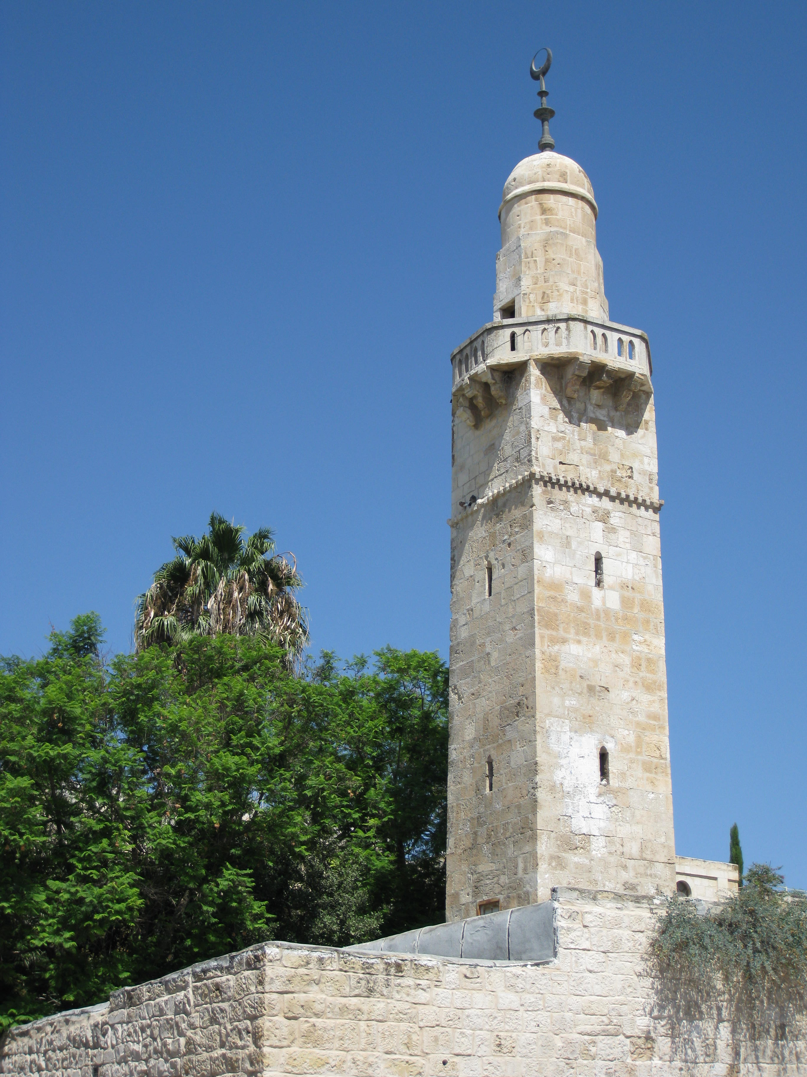 In the Jewish Quarter - Near the Hurva Sinagogue